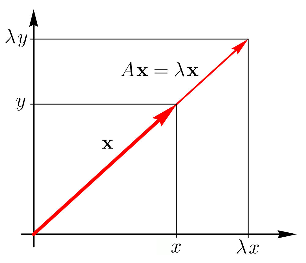 Eigenvectors